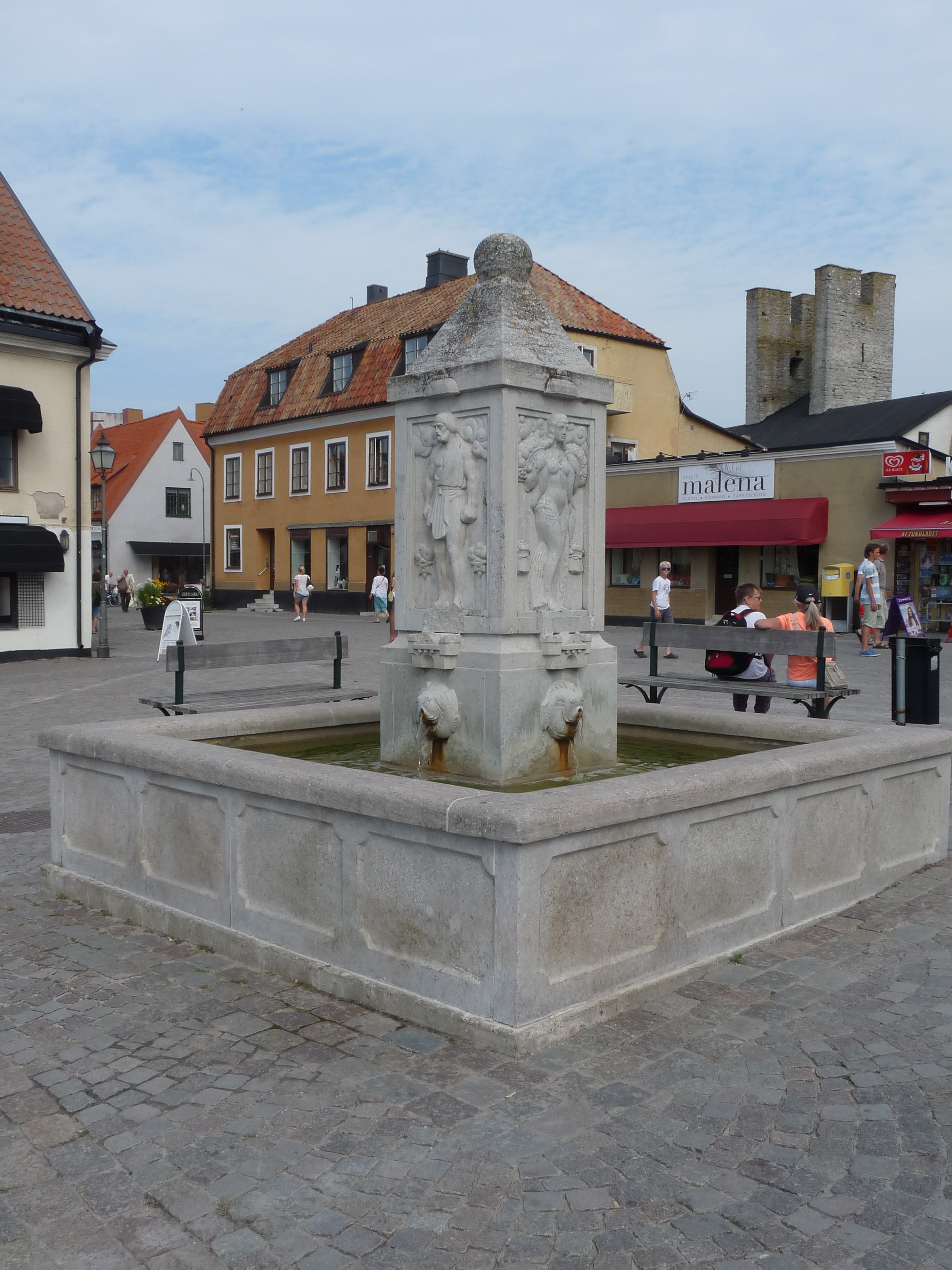 Fountain in Södertorg in Visby, Gotland (1916) with reliefs in granite of four gods of Greek mythology and four fishes. Visby fountain was created in 1916 by the sculptor Carl Fagerberg (1878-1948).